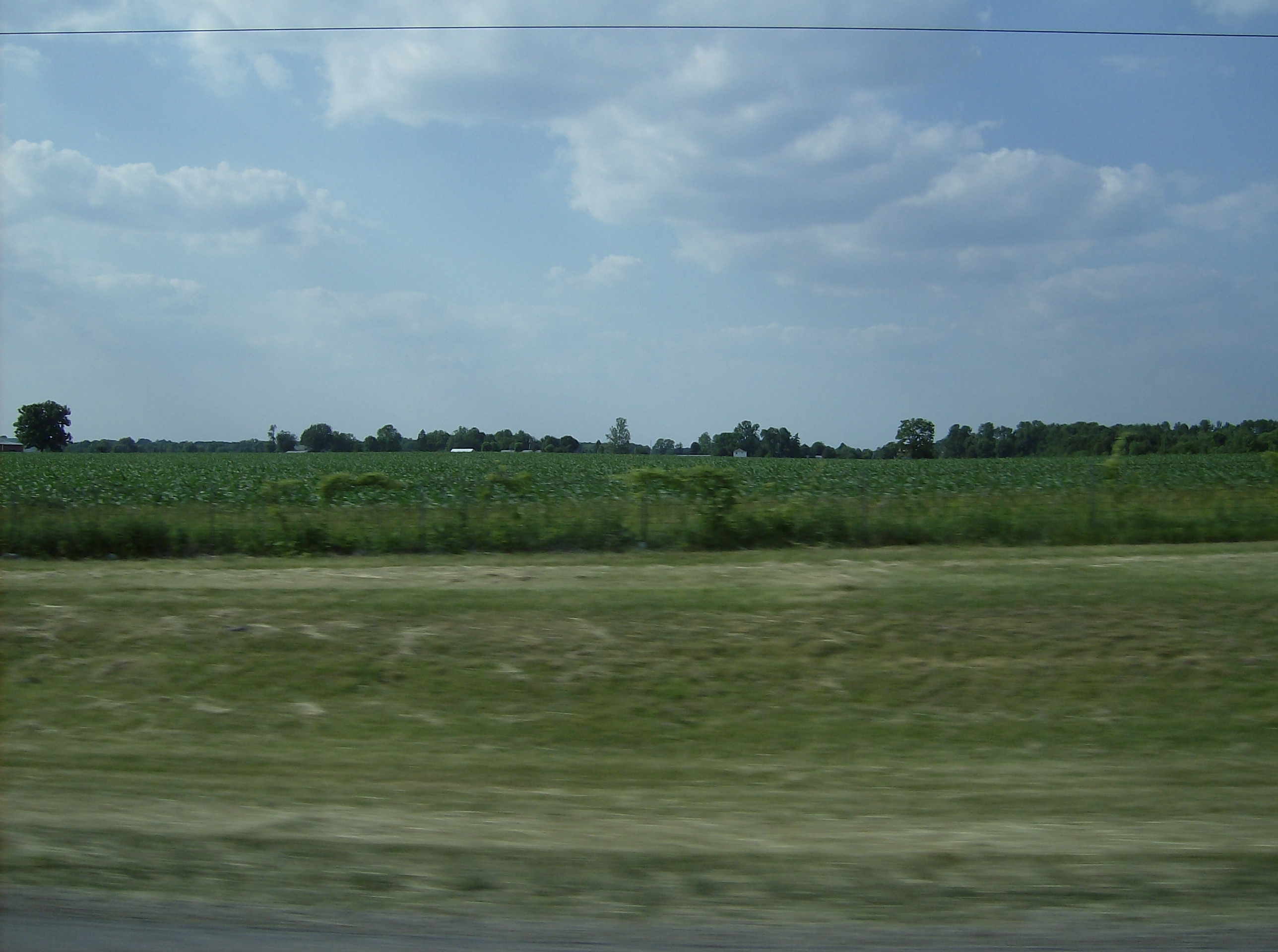 View of farmland in southwestern Harrison Township, Preble County, Ohio, United States. Picture taken looking northward from Interstate 70.